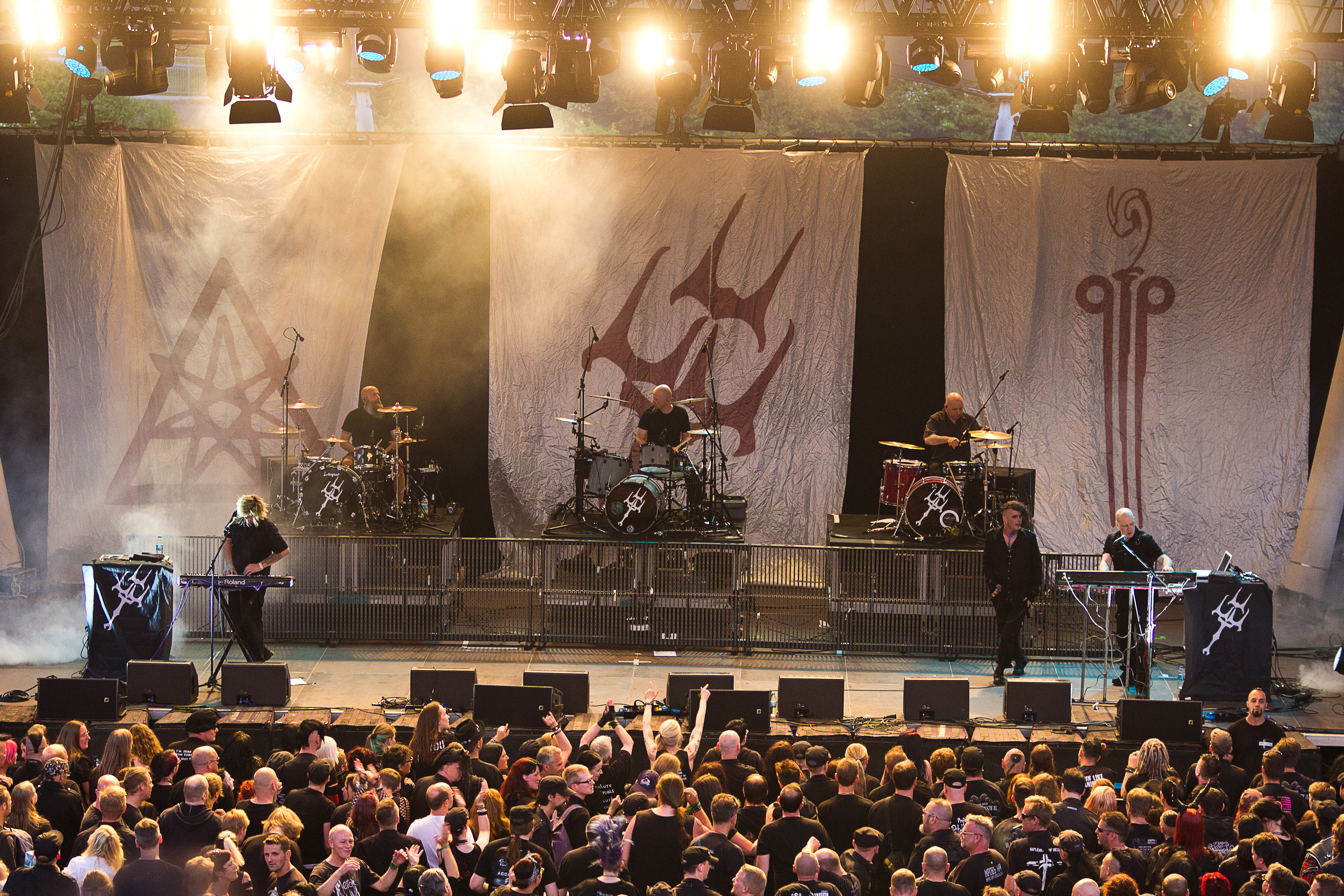 The German electronic rock band Project Pitchfork at the Blackfield festival 2015 in Gelsenkirchen/Germany.